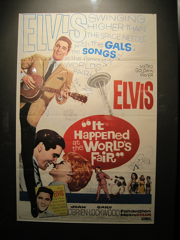 Graceland during Elvis Week 2011